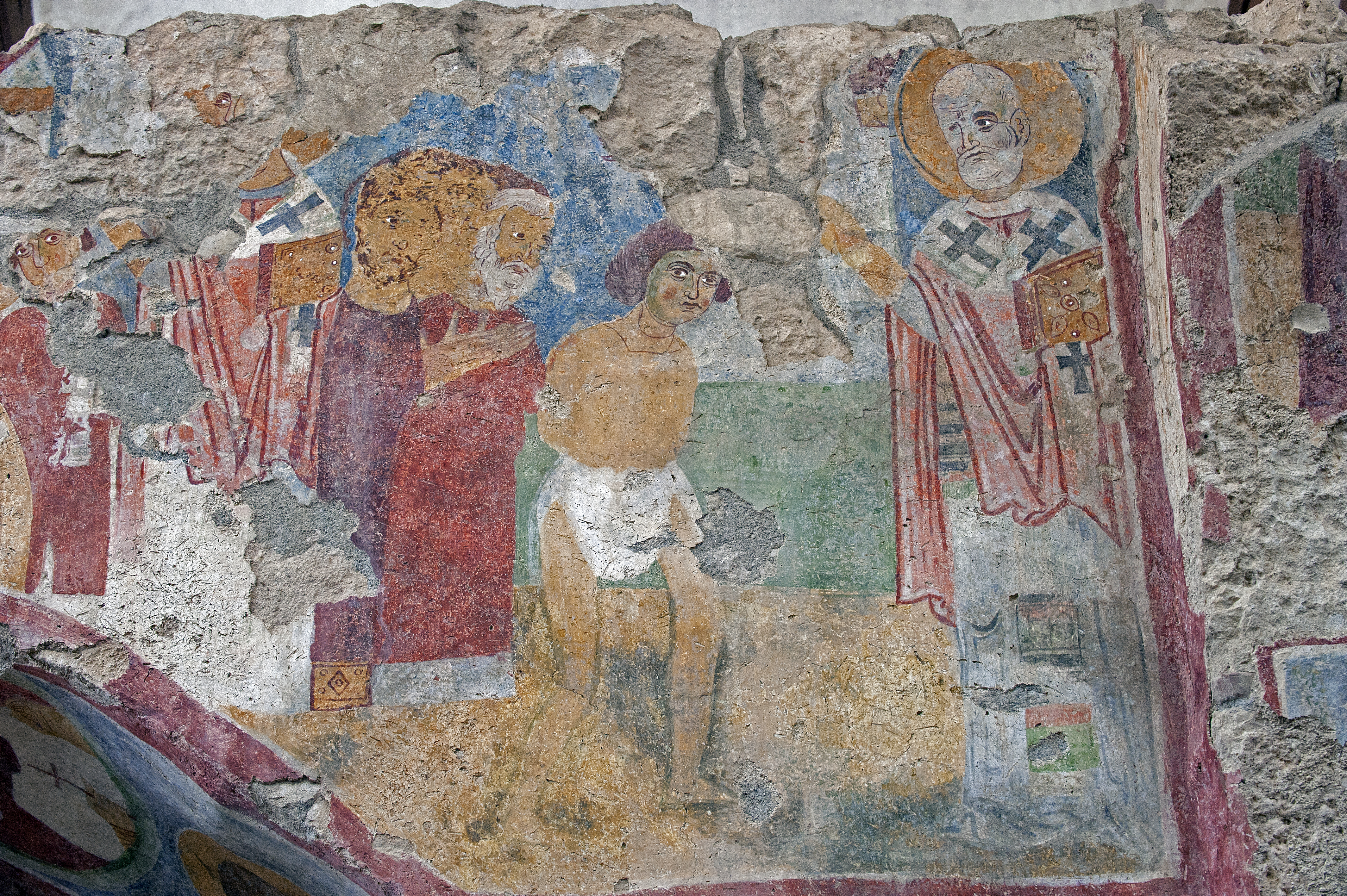 I have been informed this represents St Nicholas saving innocents condemned to death. The frescos depicting the life of St. Nicolas (and the legends about him), in the northeast aisle arcade of the church, date from the 12th century. They are the only surviving ‘St. Nicolas cycle’ in Turkey. Source: Website of ‘ ’ .